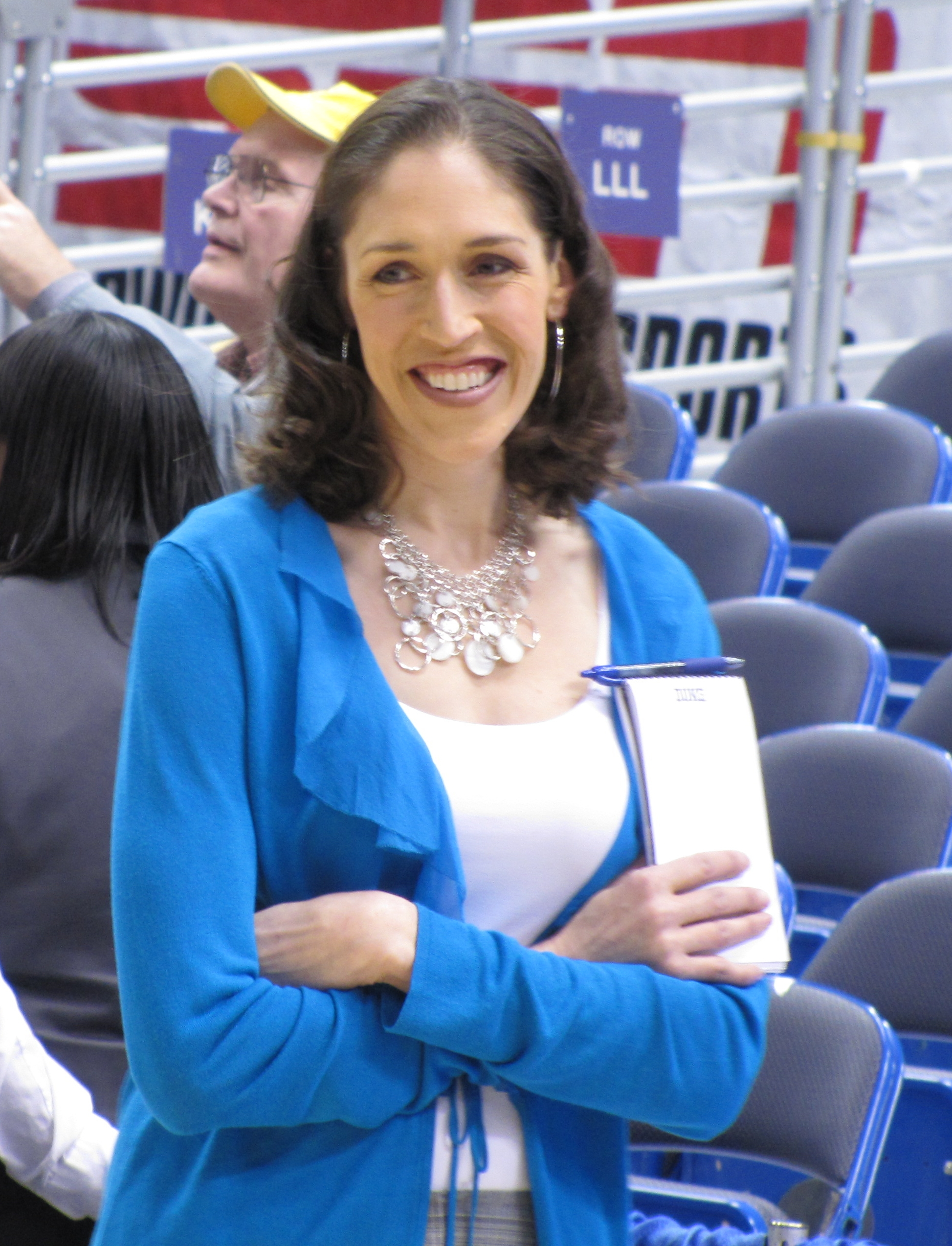 Rebecca Lobo, ESPN reporter, on the sidelines at the Big East Tournament final, 6 March 2012. Photo taken by Danny Karwoski